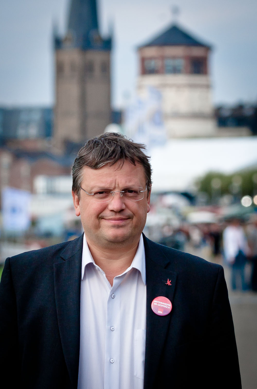 Member of the german parliament Andreas Rimkus